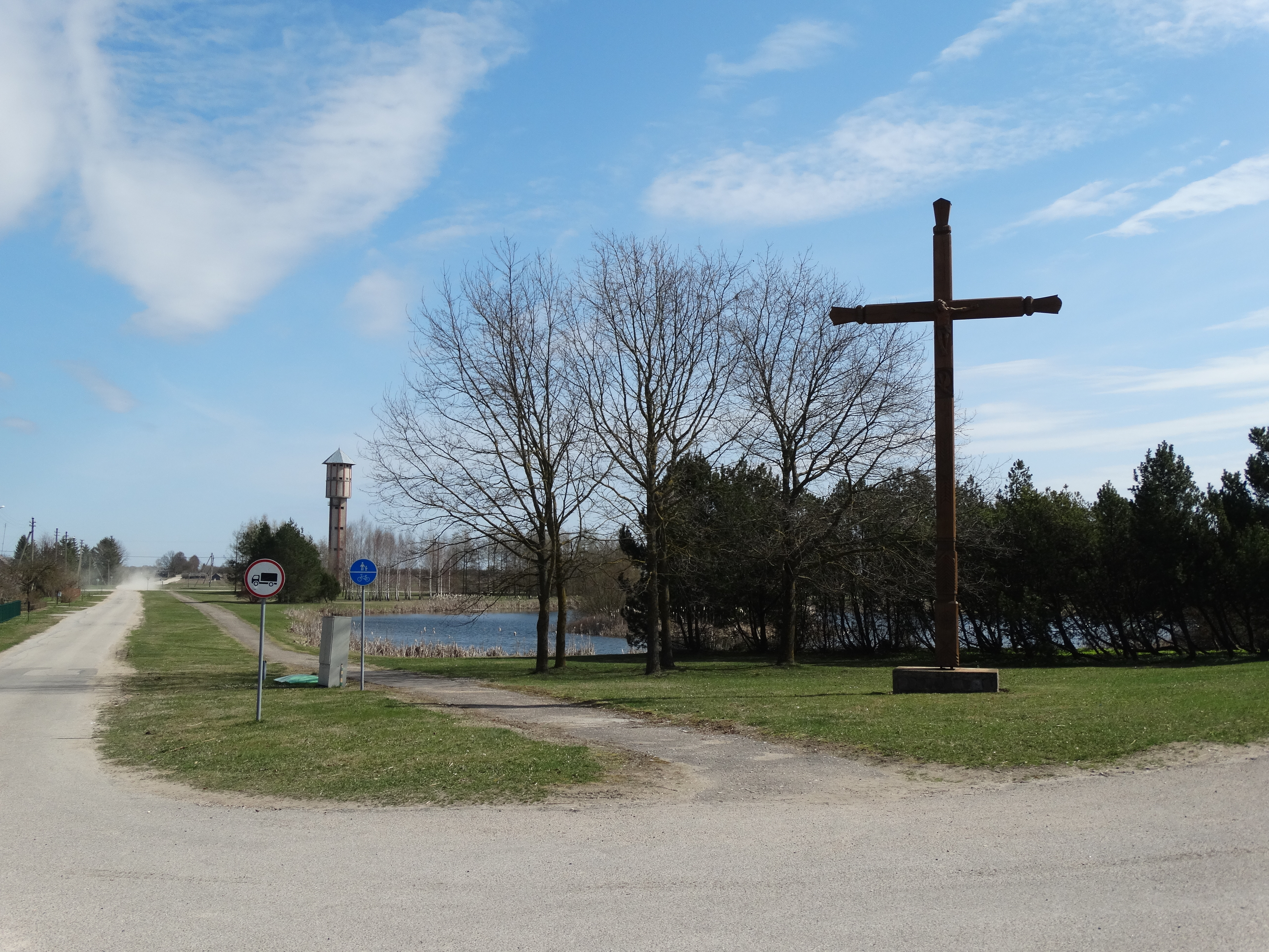 Cross, Pavermenys, Kėdainiai District, Lithuania